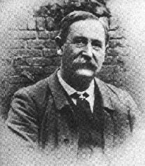 Donald Sutherland Swanson, PD because of age